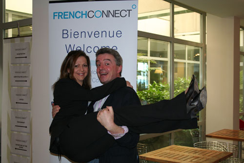 Michael O'Leary (businessman), CEO announces a new Ryanair base in Marseille at the national aviation event of France, French Connect together with Karin Butot, MD of The Airport Agency